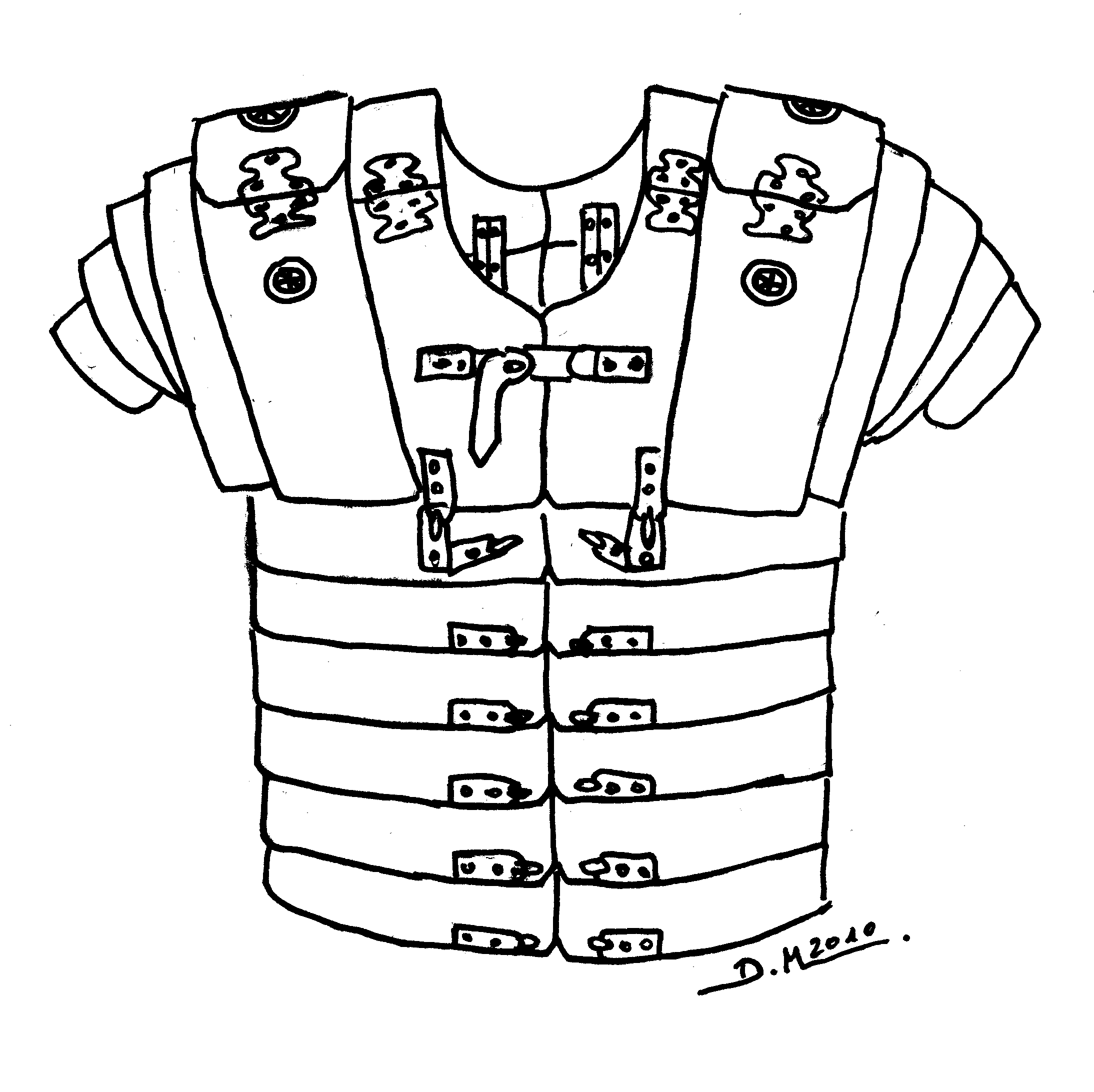 Lorica segmentata Corbridge B